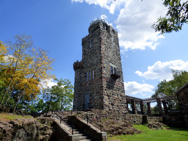 Garrett Mountain in Woodland Park